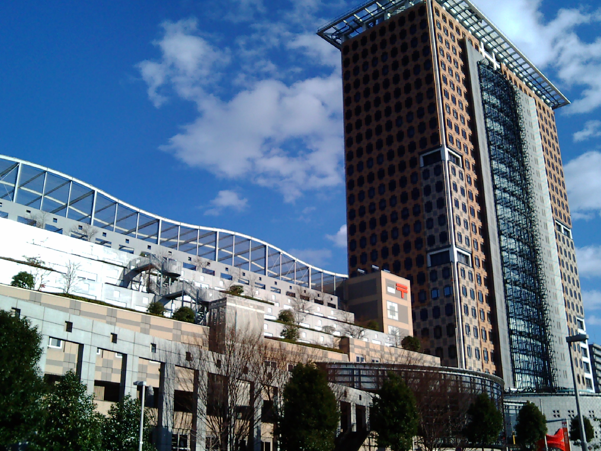 Saitama-Shintoshin Post office building(left side), Saitama-Shintoshin Japan Post Holdings Co.,Ltd.(before:Saitama-Shintoshin Ministry of Posts and Telecommunication)building(light side).